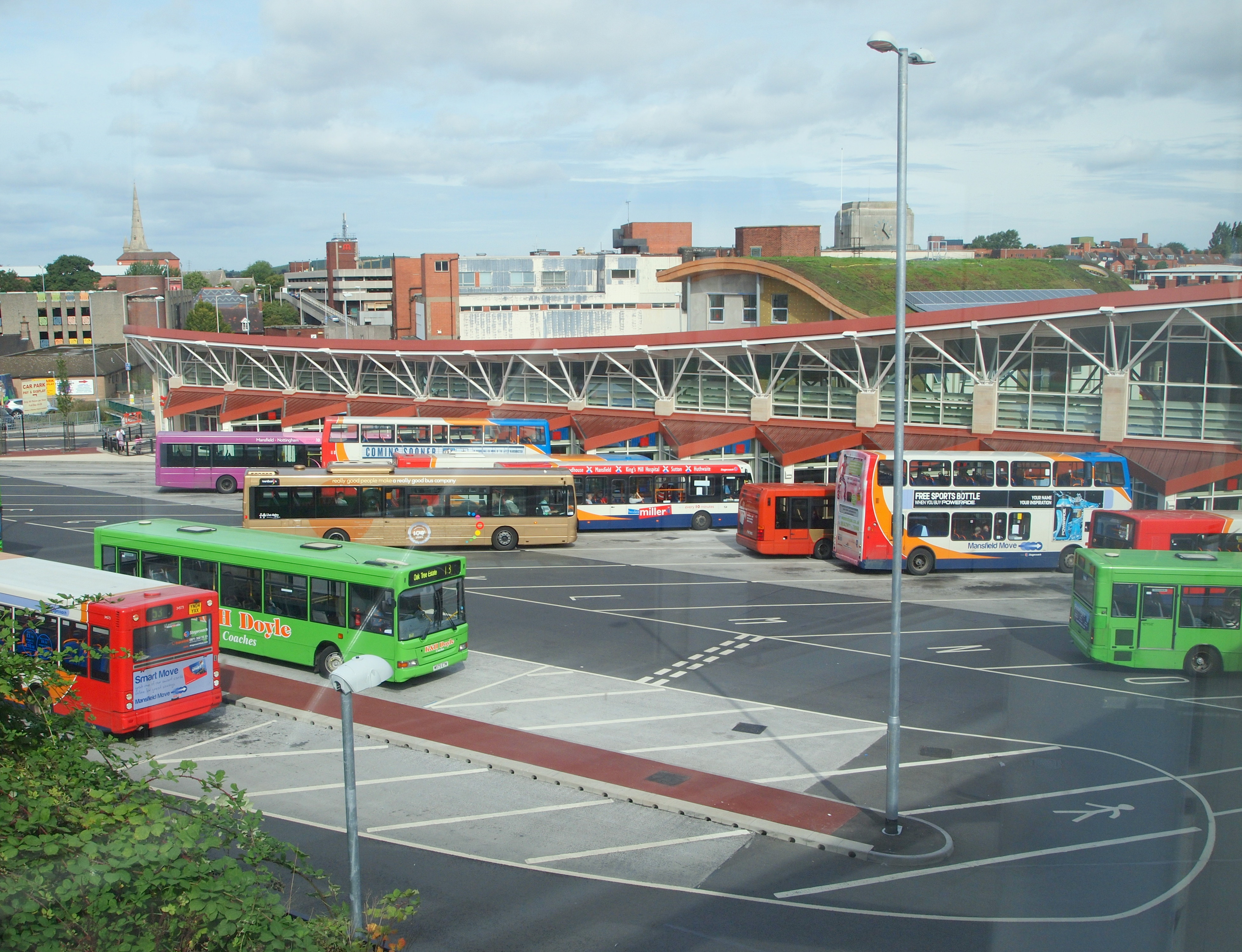 Mansfield, Notts.